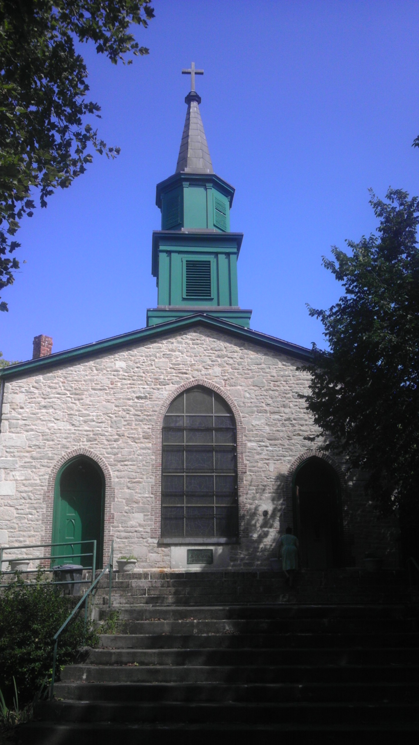 Looking north from courtyard up at St. Ann's Church.